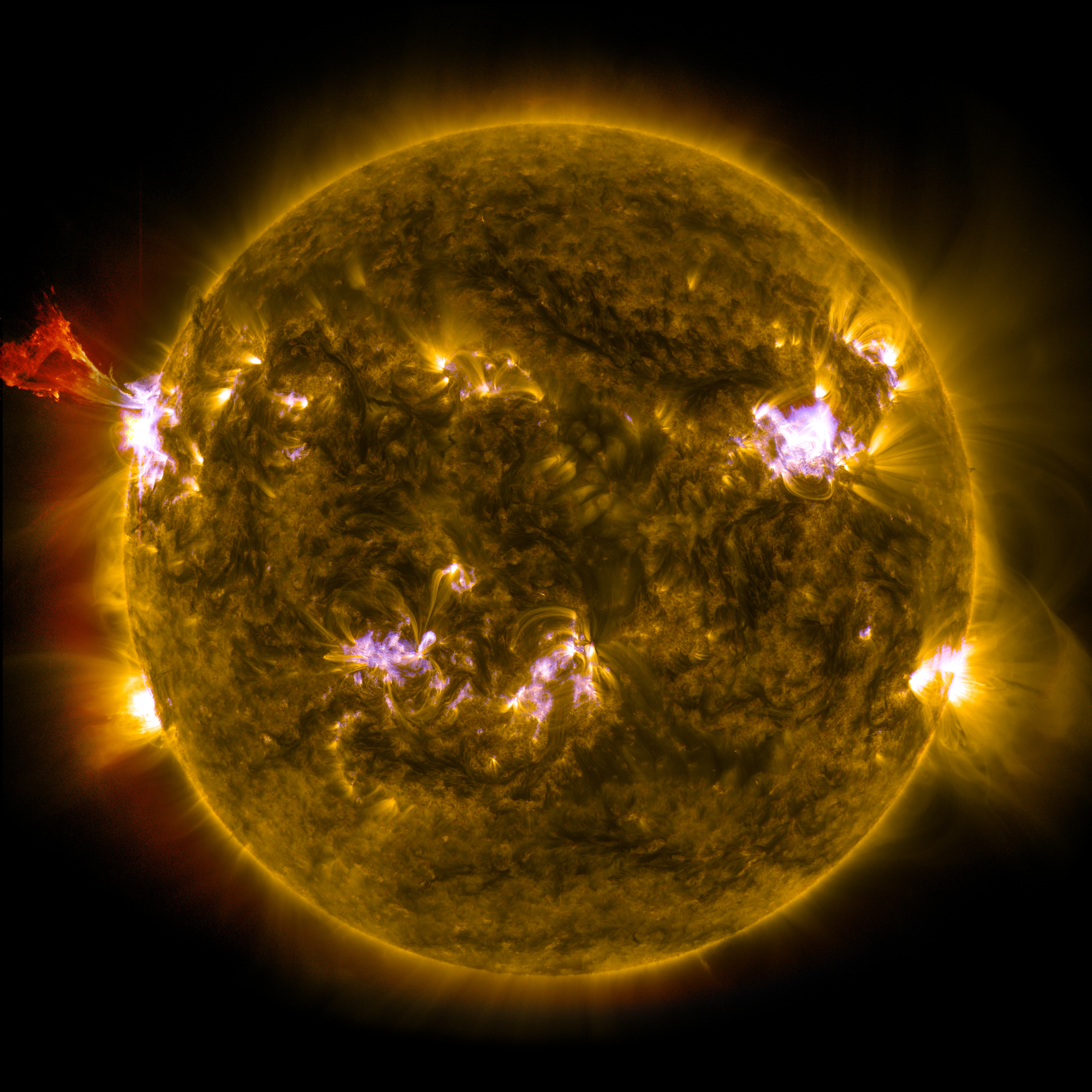 A burst of solar material leaps off the left side of the sun in what’s known as a prominence eruption. This image combines three images from NASA's Solar Dynamics Observatory captured on May 3, 2013, at 1:45 pm EDT, just as an M-class solar flare from the same region was subsiding. The images include light from the 131-, 171- and 304-angstrom wavelengths.